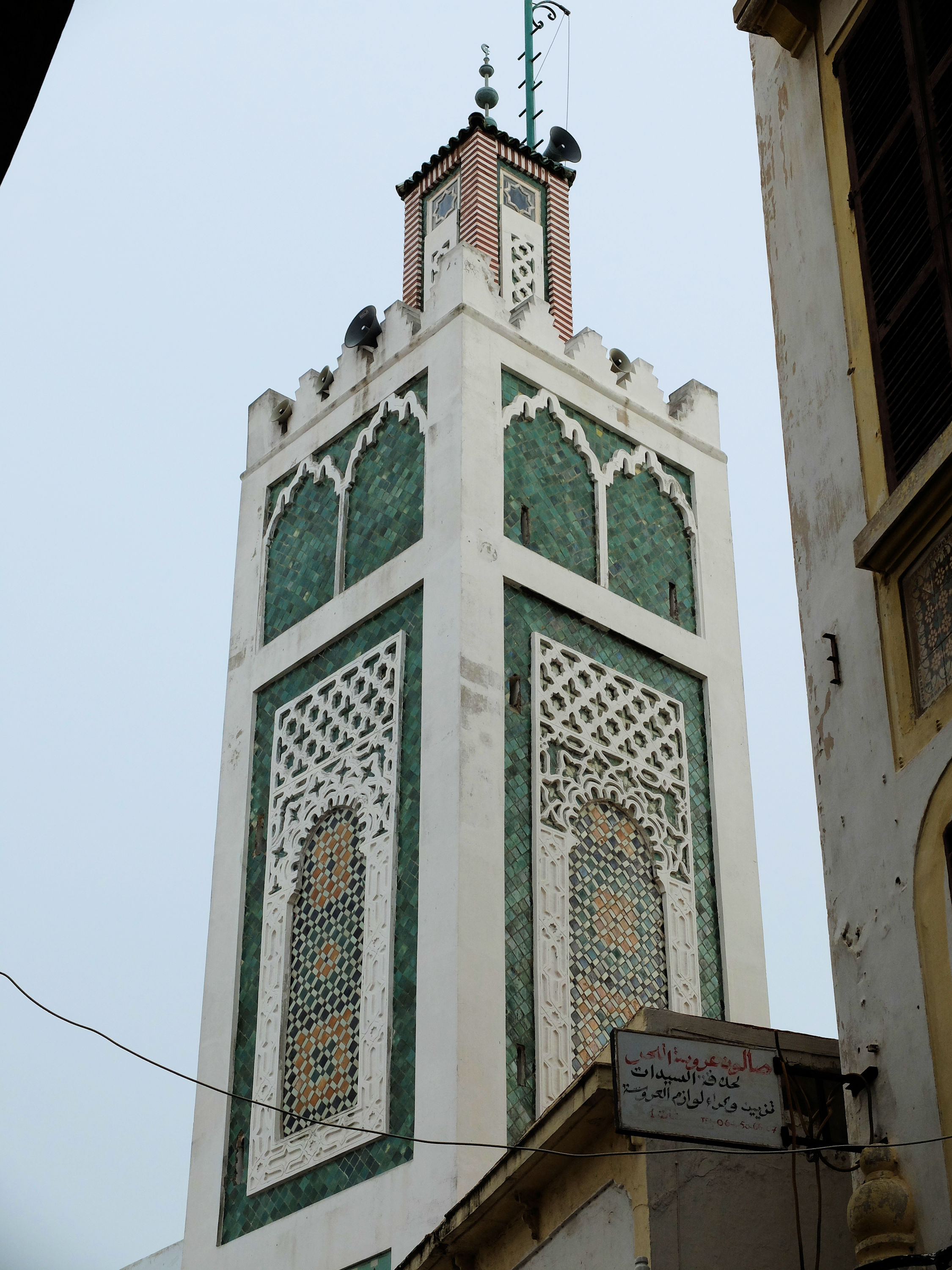 Minaret of the Grand Mosque of Tangier (located in the medina, below the Petit Socco).